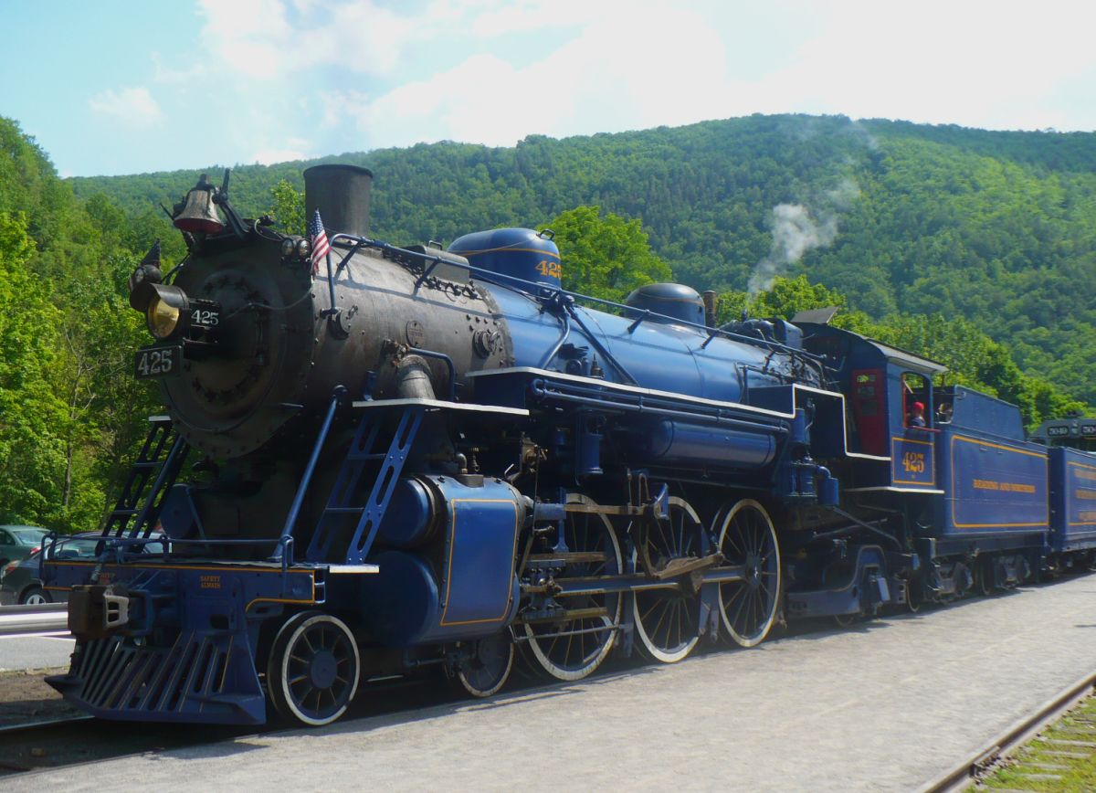 Reading, Blue Mountain and Northern 4-6-2 #425 sits at the Jim Thorpe depot before departing for its homebase at Port Clinton, Pennsylvania. This is halfway through the engine's first passenger excursion in nearly 11 years